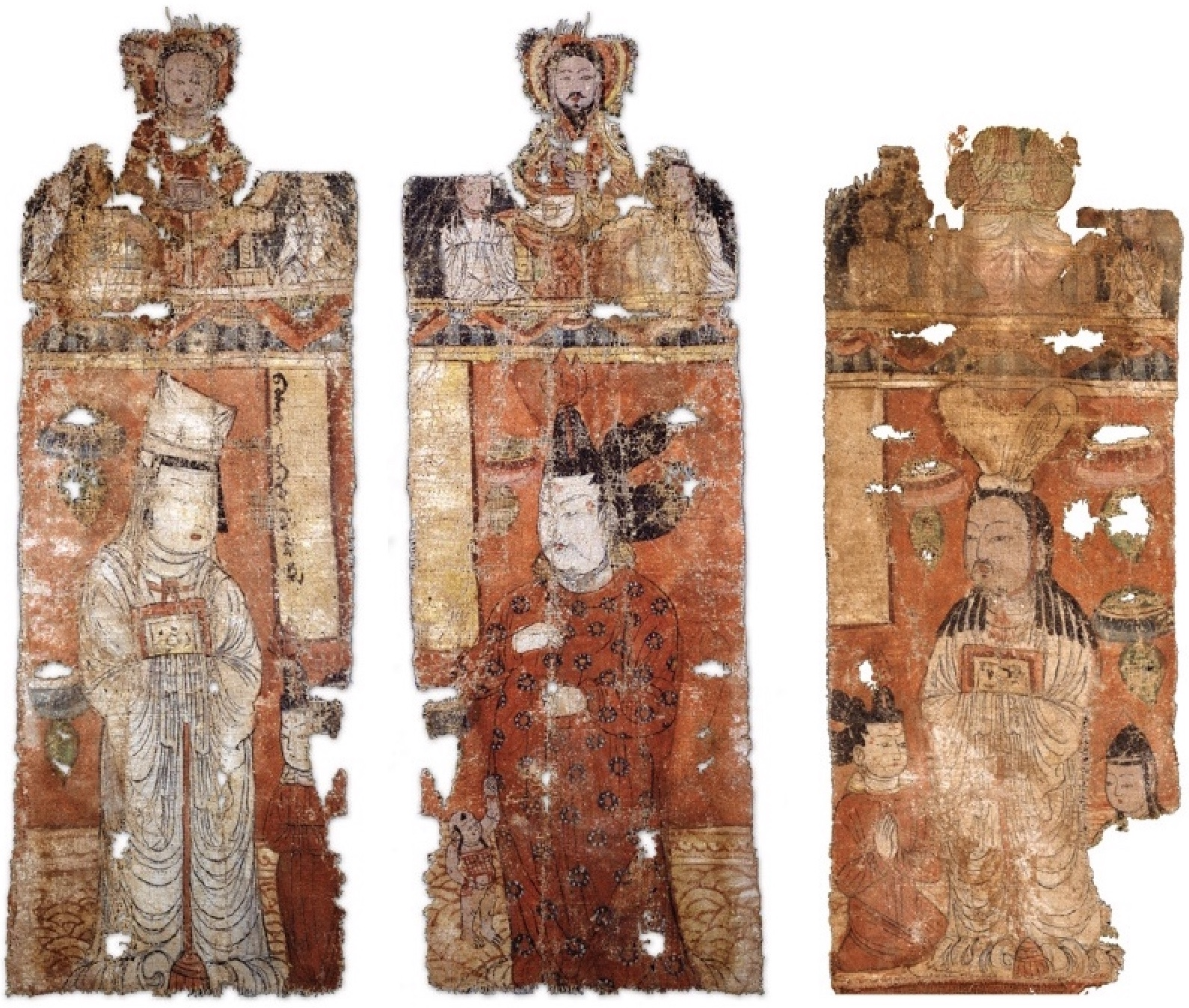 Two Manichaean banners, from left to right: MIK III 6286 side 1; MIK III 6286 side 2; MIK III 6283 side 1. The images depicting Light Maiden Awaits the Righteous and Jesus Awaits the Righteous. An icon of enthroned Light Maiden depicted on the top of MIK III 6286 side 1; an icon of enthroned Jesus depicted on the top of MIK III 6286 side 2.